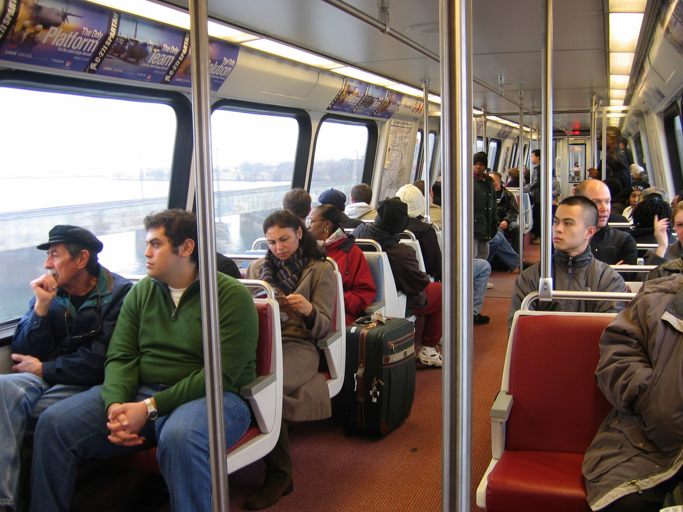 Interior of a Yellow Line train on Washington Metro, crossing the Potomac River between the Pentagon and L'Enfant Plaza stations on a Sunday afternoon.